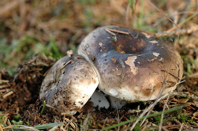 Russula nigricans from Commanster, Belgium. The determination of the species shown in this picture has been verified.